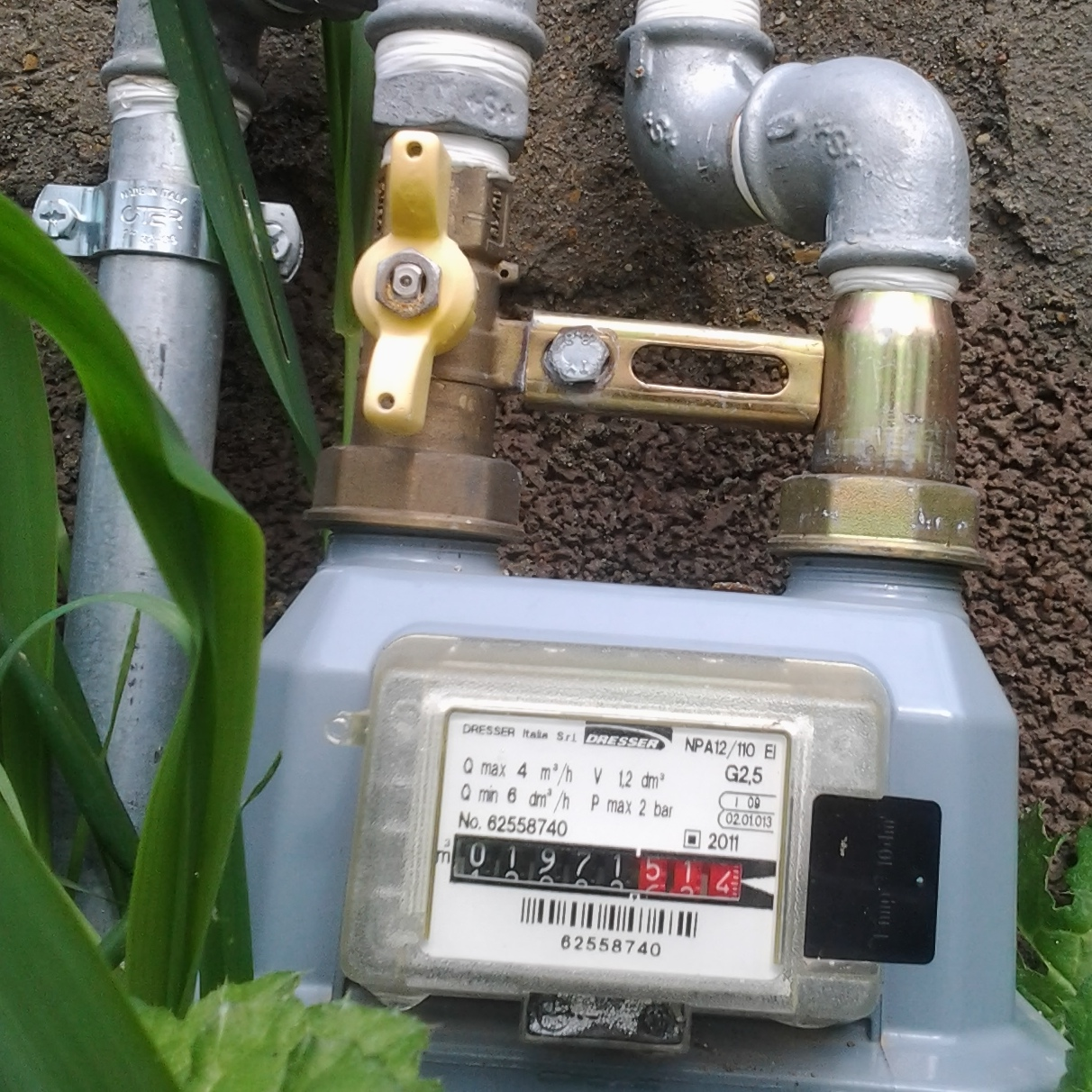 Gas meter for domestic use